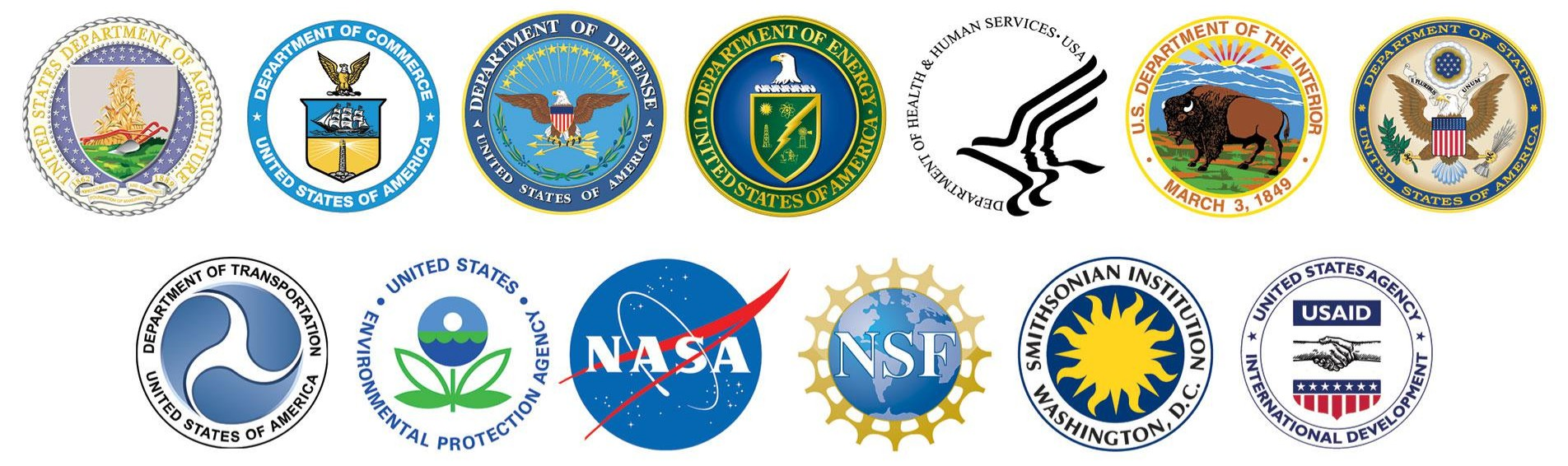 These 13 federal entities (agencies) participate in the U.S. Global Change Research Program (USGCRP). Representatives from each of these agencies constitute the Subcommittee on Global Change Research of the Committee on Environment within the National Science and Technology Council, Executive Office of the President. USGCRP is a federal program mandated by Congress to coordinate Federal research and investments in understanding the forces shaping the global environment, both human and natural, and their impacts on society. USGCRP facilitates collaboration and cooperation across its 13 federal member agencies to advance understanding of the changing Earth system and maximize efficiencies in Federal global change research.